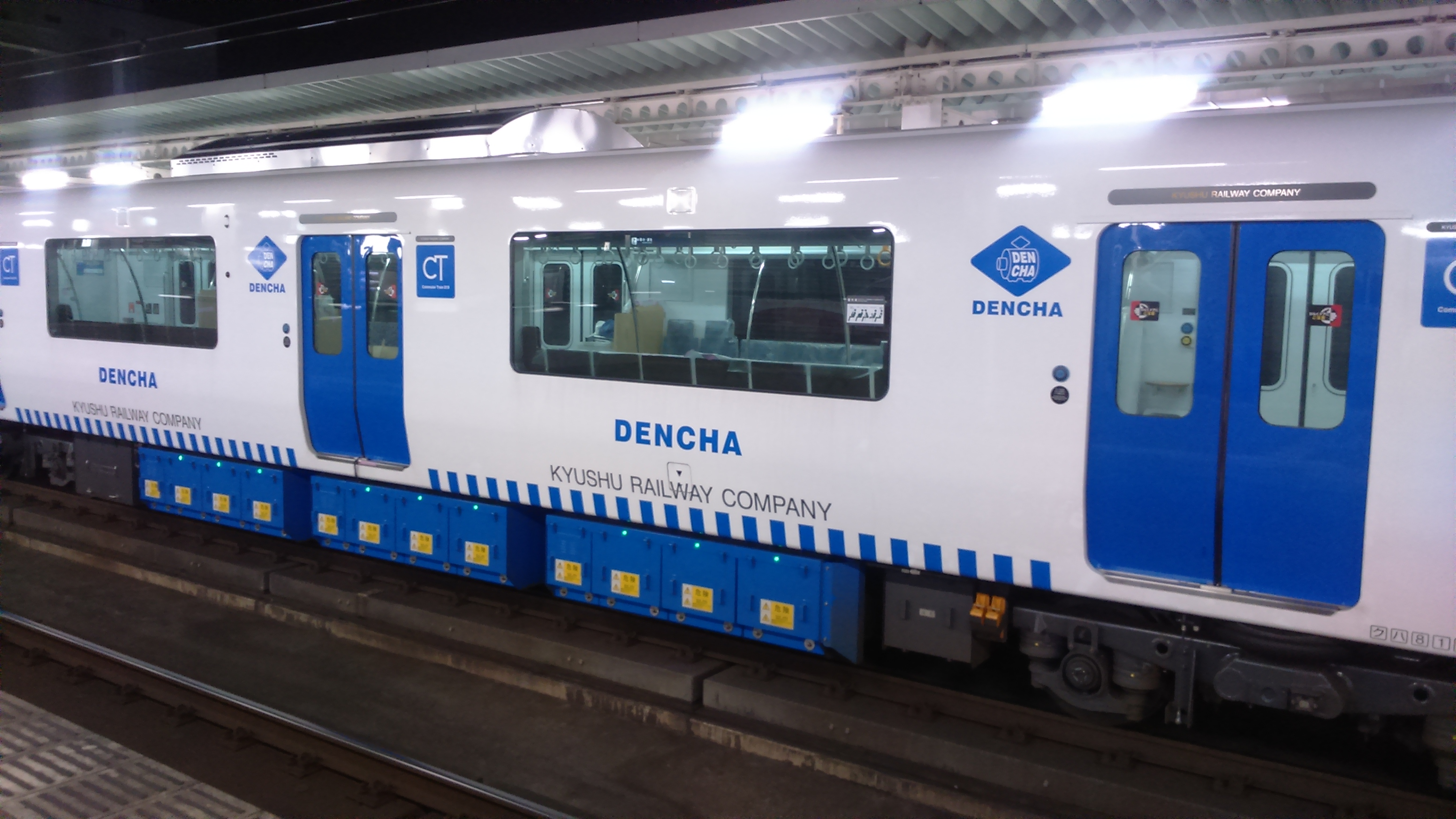 Car KuHa 818-1 of JR Kyushu 819 series battery EMU set Z001 at Yoshizuka Station on the Fukuhoku Yutaka Line during a late-night test run